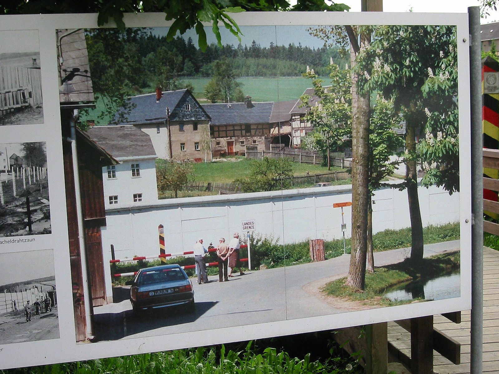 Mödlareuth, Germany: Information table showing the inner-German border that divided the village before 1989.